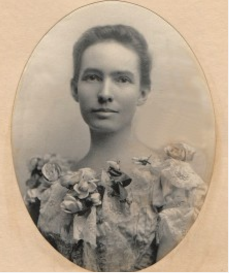 This is a photographic portrait of Edith Dennison Darlington Ammon, a philanthropist and photographer. She contributed to the Darlington Collection housed at the University of Pittsburgh, University Library System